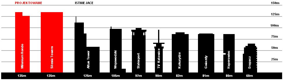 Tall buildings in Katowice